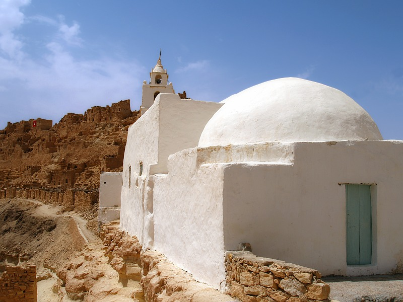 View of the mosque of Chenini